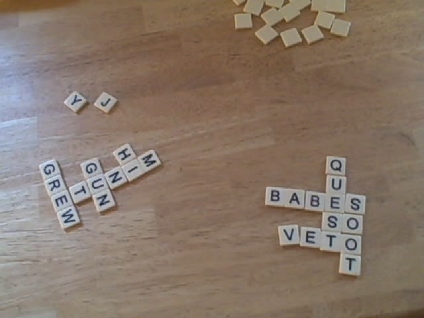 This is a game of Take Two in progress. Take Two is a variant of Scrabble that can be played with Scrabble tiles, though the tiles depicted here are from Bananagrams -- a commercial version of Take Two. Each player currently has 14 tiles, though only the player on the right has completed a legal grid -- the player on the left still has two unused tiles. When the player on the right calls out "take two," both players will draw from the pool of communal tiles at the top of the picture.